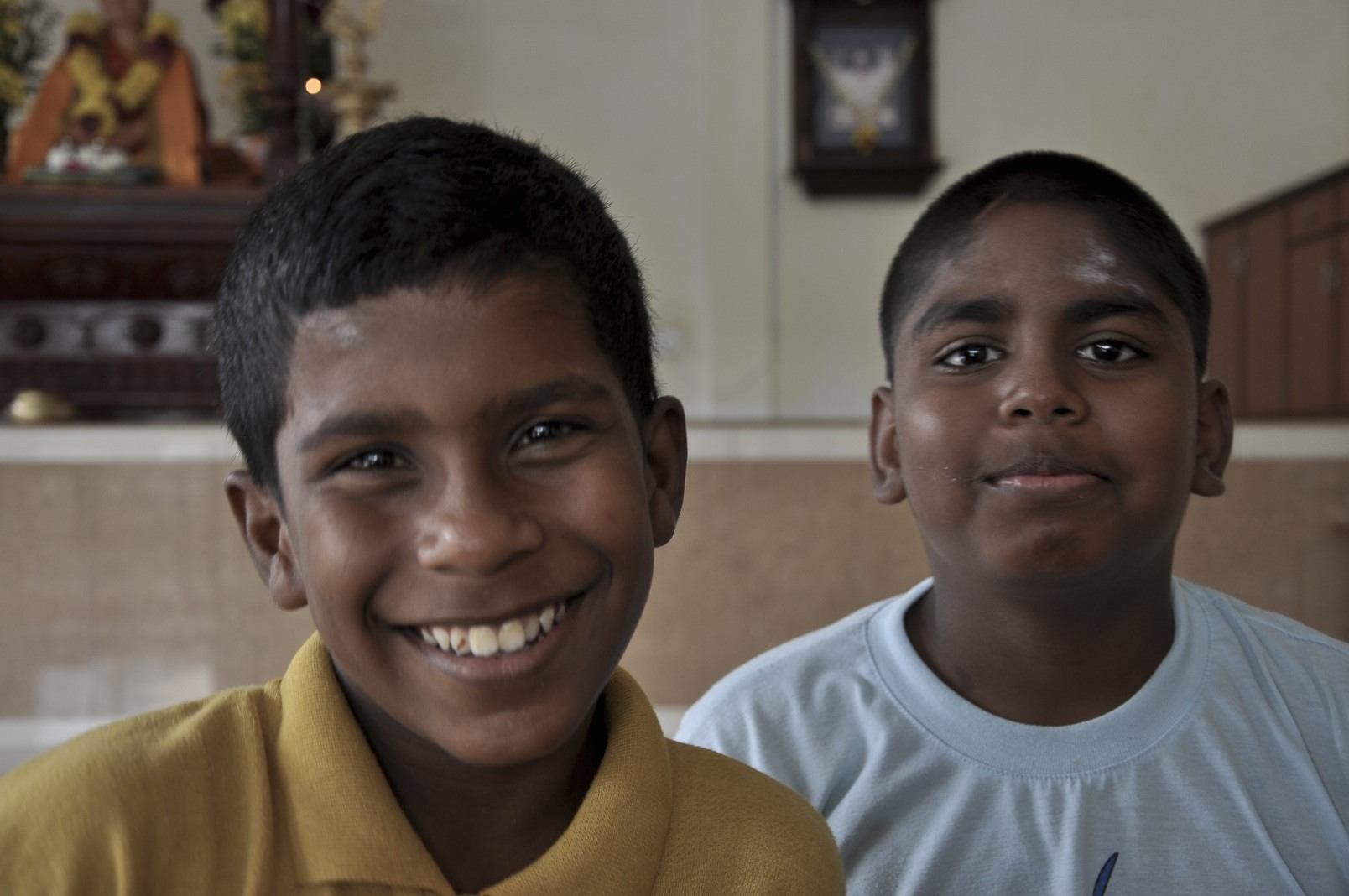 Malaysian Tamil boys from Kuala Lumpur.